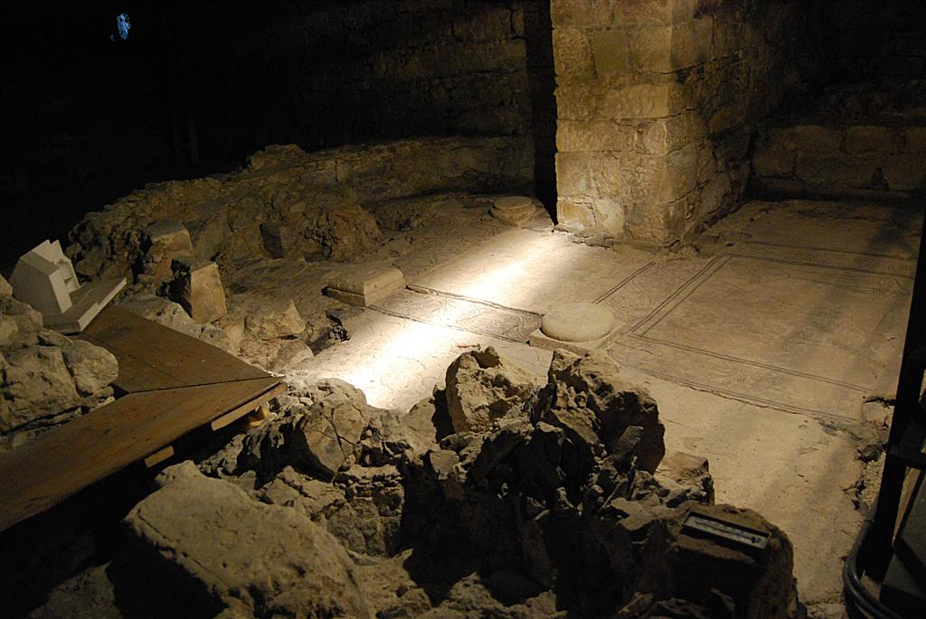 Plate of Orants, general view, from yr 1175